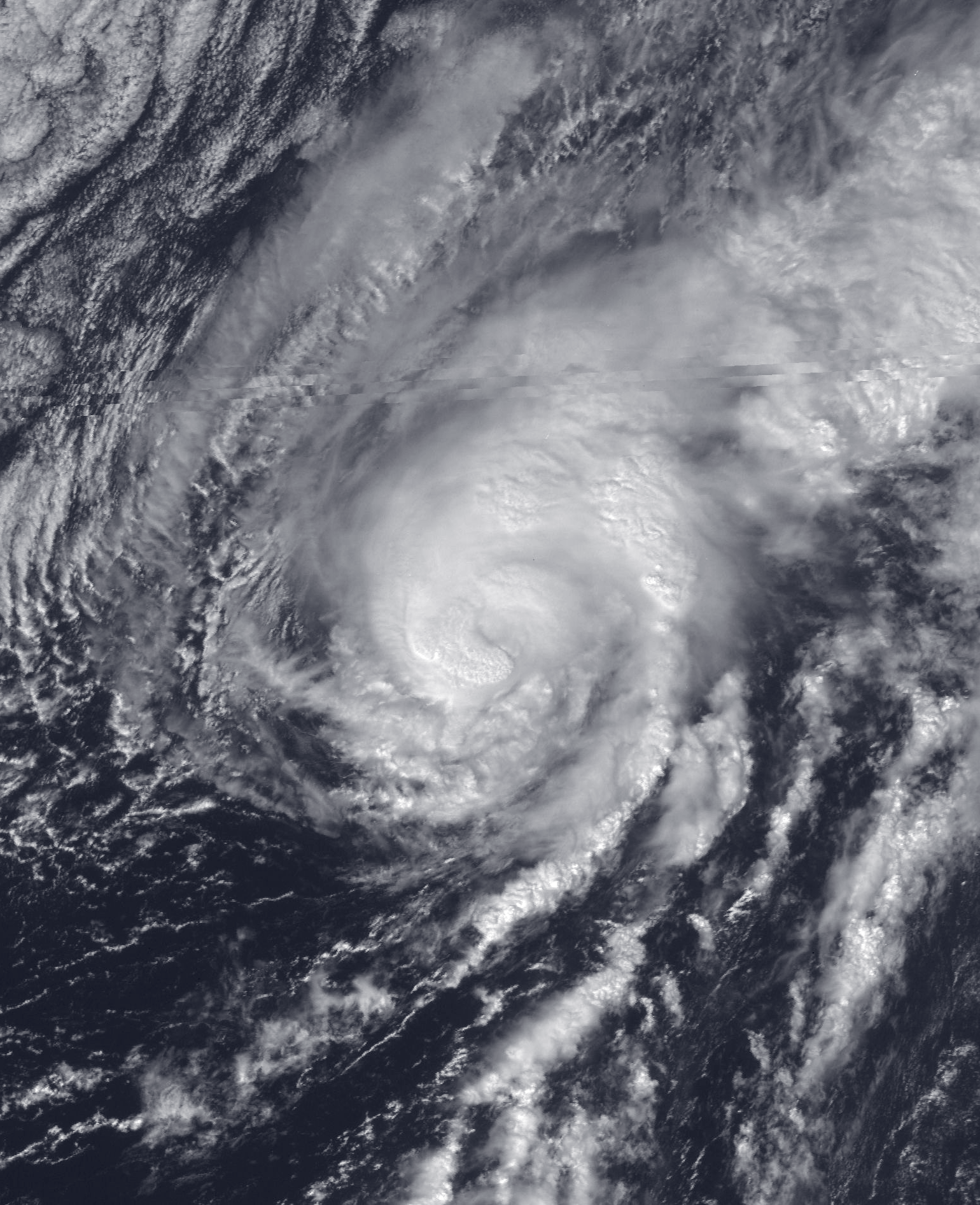 Hurricane Karl intensifying over the Atlantic Ocean on September 26, 1998